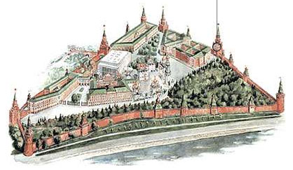 Overview map of the Moscow Kremlin. Location of Spasskaya Tower marked.